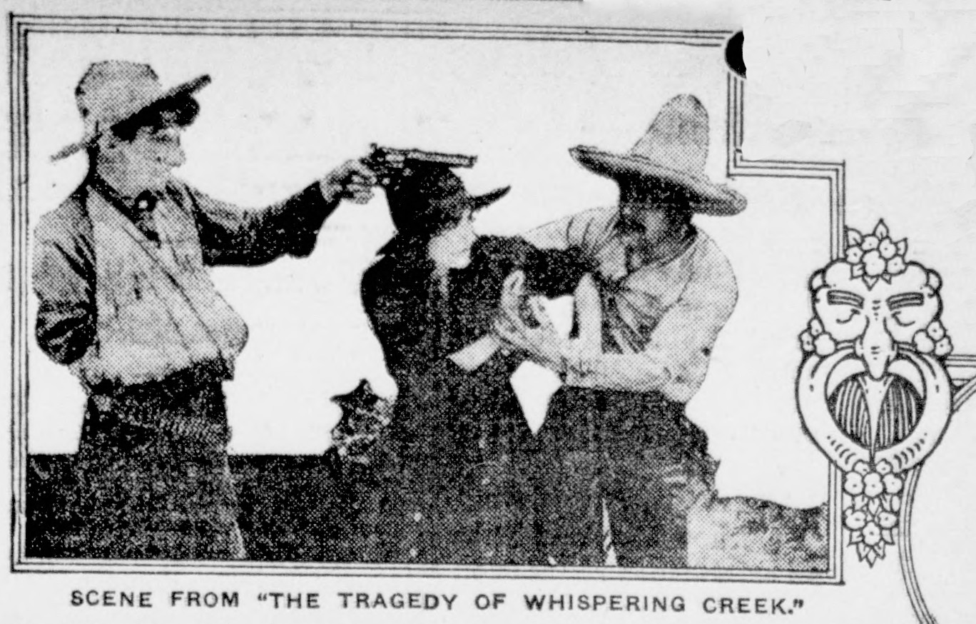 Newspaper publicity image (slight digital muting of conflicting text on the right)